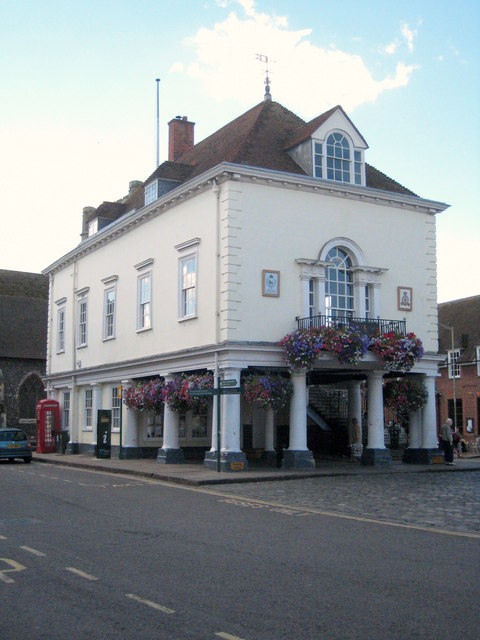 Wallingford Town Hall Also an open market place on the ground floor - more information here